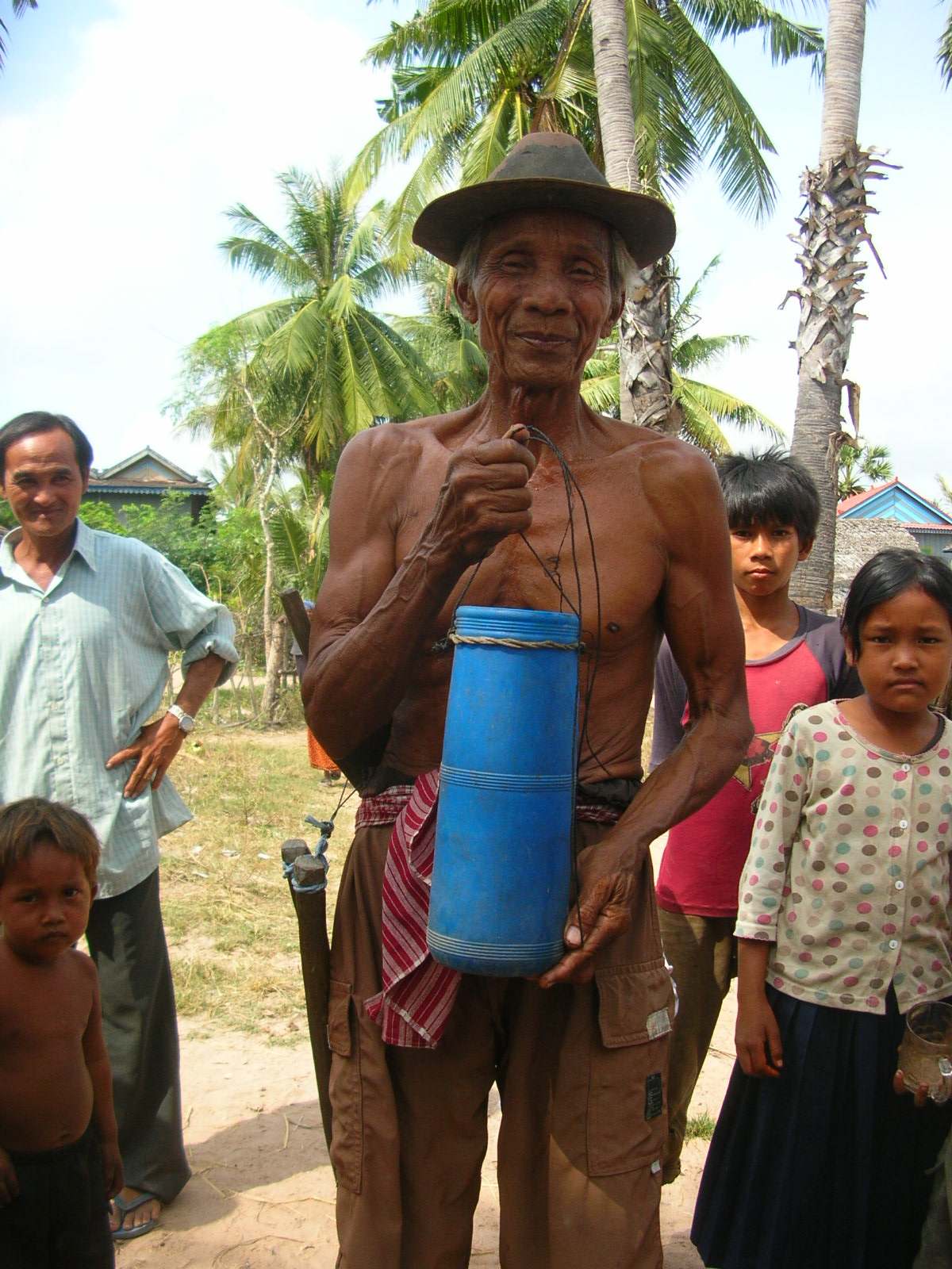 Many villagers are adept at shimmying up palm trees; they drink the juice and make palm sugar & wine. Takeo Province